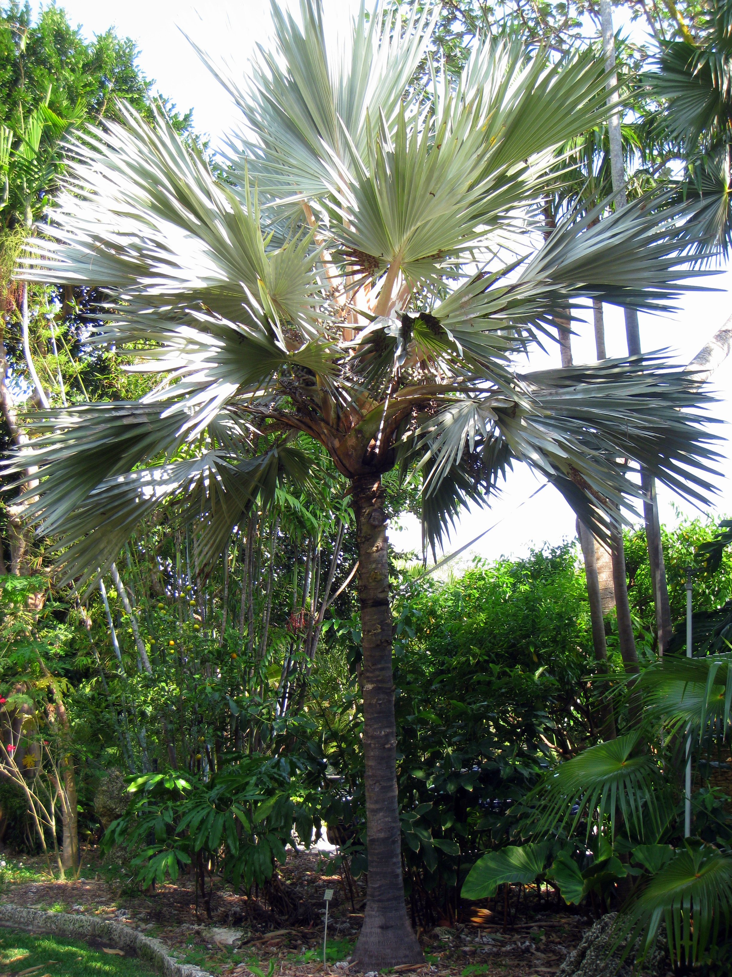 Latania loddigesii - The Kampong, Coconut Grove, Florida, USA.